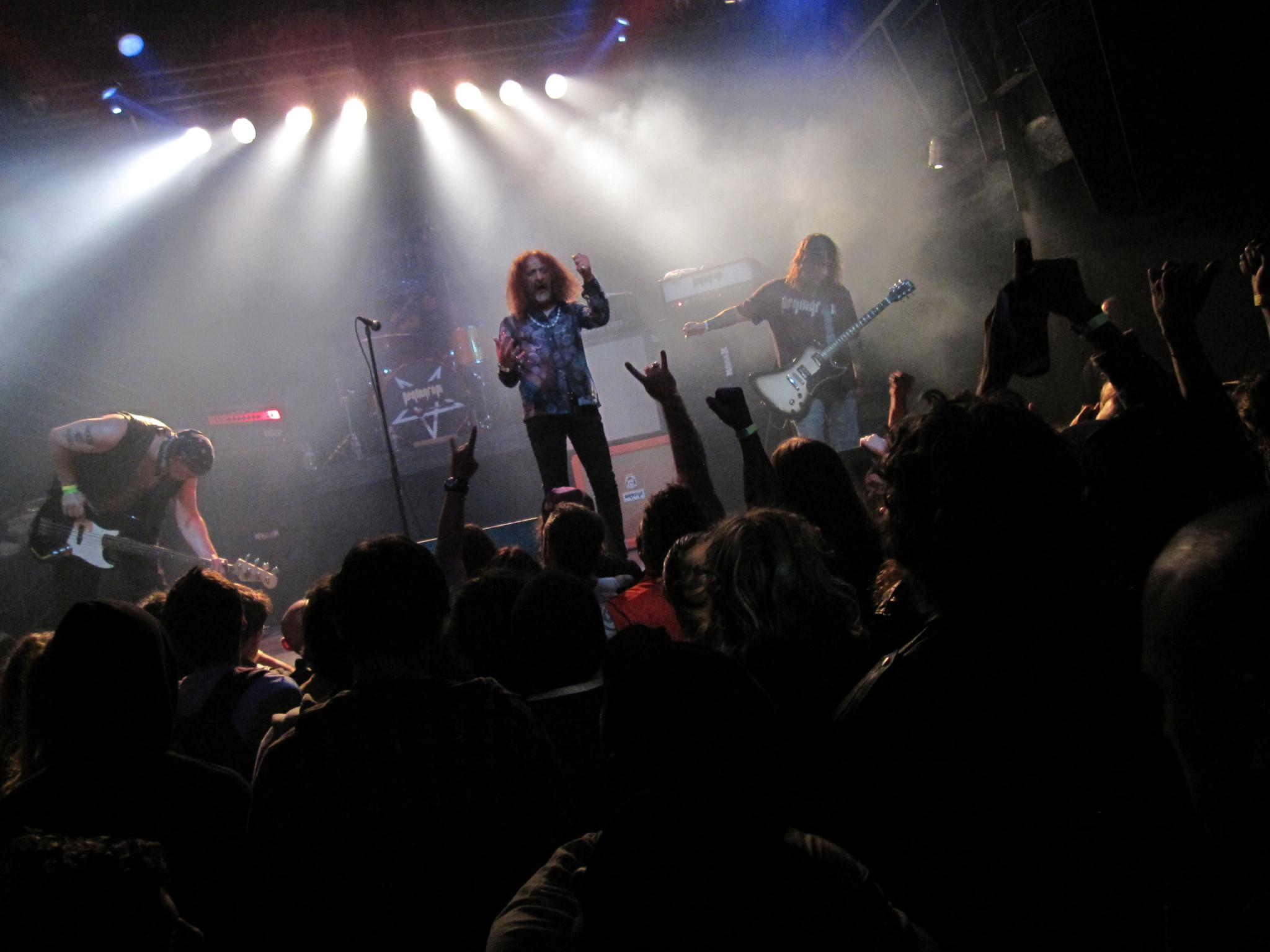 The american doom metal band Pentagram live at the DNA lounge, San Francisco, USA in 2009